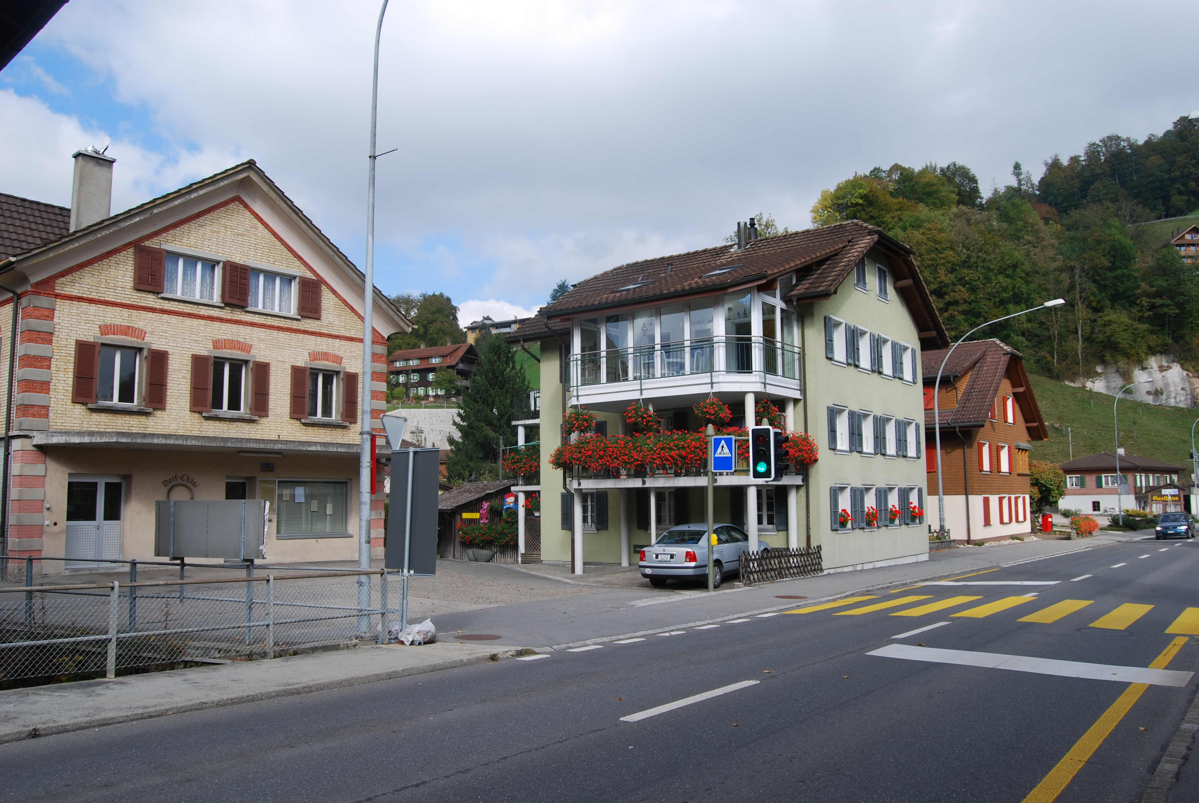 Werthenstein, canton of Luzern, SwitzerlandEsperanto: Werthenstein, Kantono Lucerno, Svislando